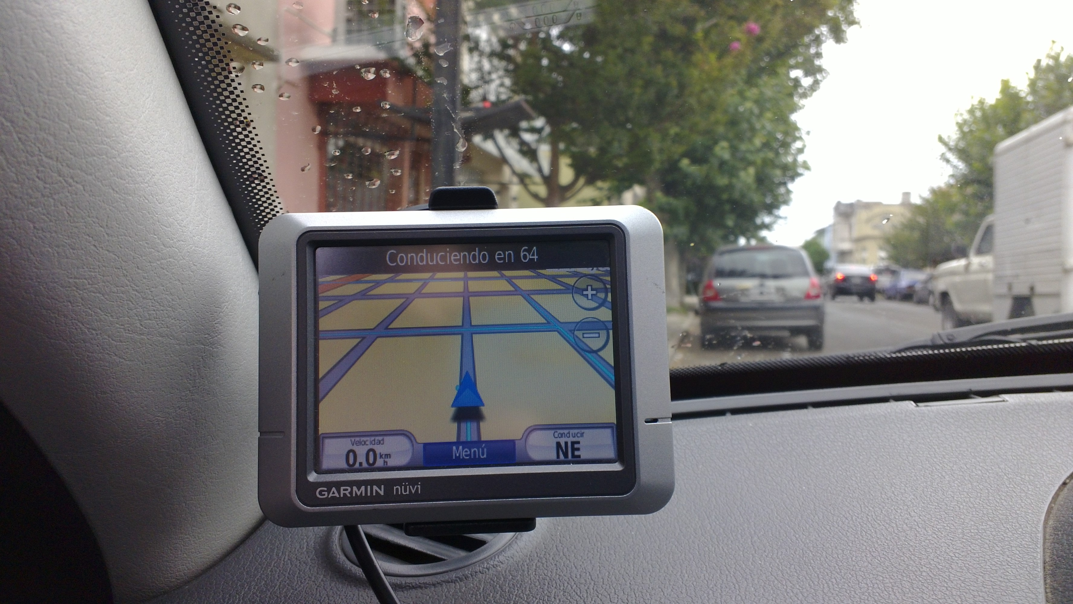 A Garmin Nüvi 200 GPS device, mounted on a Volkswagen Gol's windshield, and connected to the car's power supply, showing free-drive navigation data on Necochea city, Argentina.